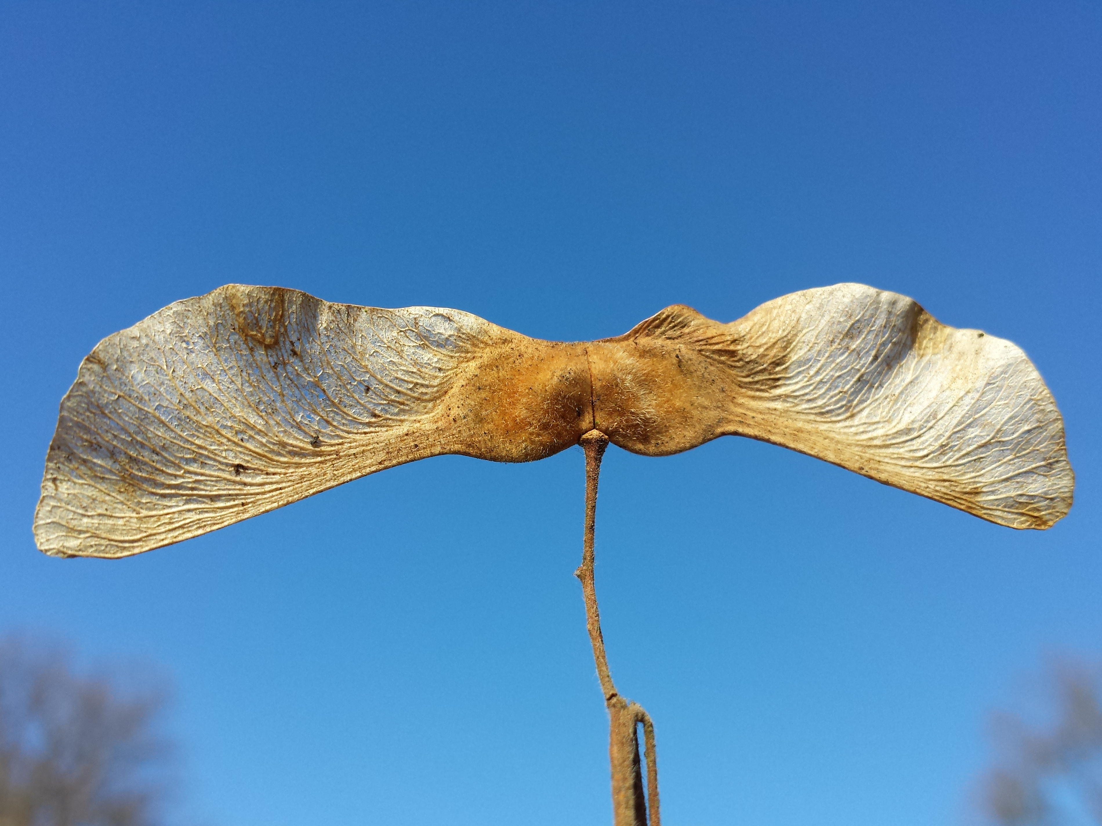 Fruit Taxonym: Acer campestre ss Fischer et al. EfÖLS 2008 ISBN 978-3-85474-187-9 Location: Pfaffenholz near Niederhollabrunn, district Korneuburg, Lower Austria - ca. 280 m a.s.l. Habitat: deciduous forest